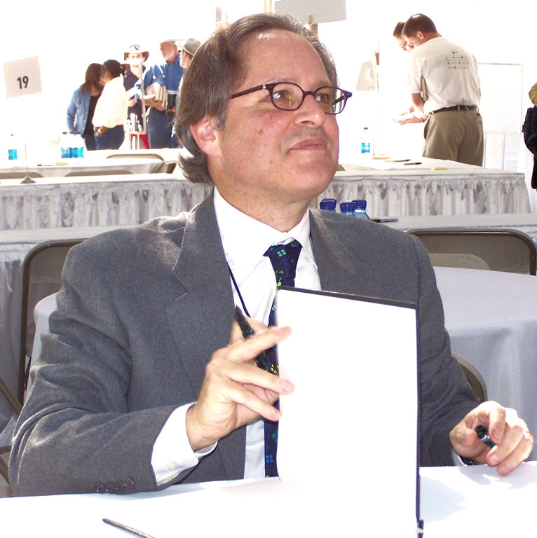 Nicholas Lemann at the 2006 Texas Book Festival, Austin, Texas, United States. Lemann won the 1991 Los Angeles Times Book Prize for History for his book The Promised Land: The Great Black Migration and How It Changed America.